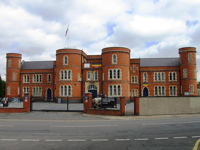 Northampton TA Centre, Drill Hall